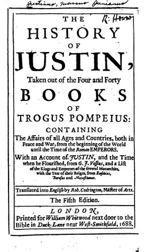 The front cover of a 1688 print of Justin's 2nd Century AD epitome of the 1st BC Historia Philippicae by Trogus Pompeius (name anglicized), a book holding a slimmed down transcription of the history of the world from the "beginning" to the "time of the Roman Emperors"